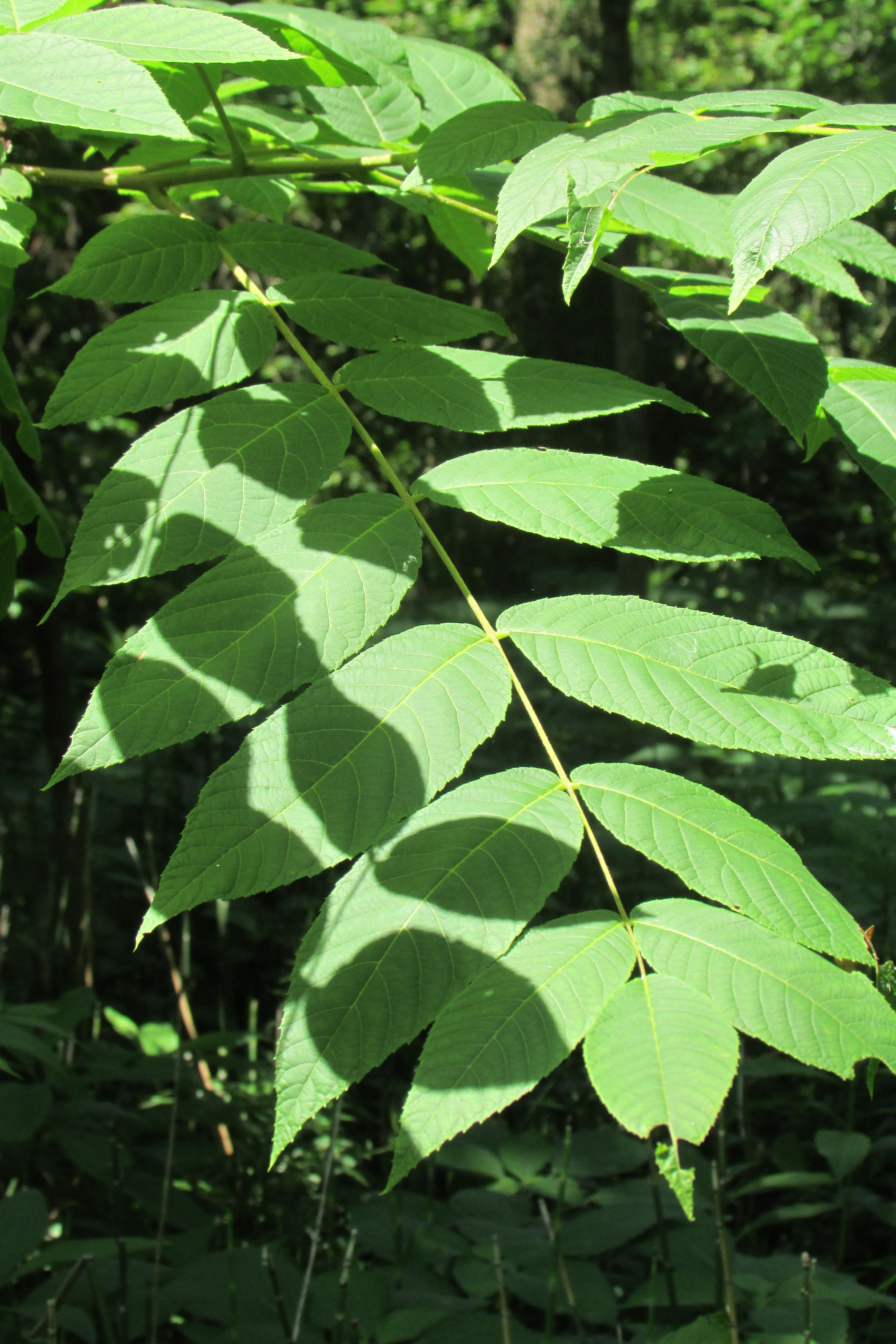 Bitternut Hickory (Carya cordiformis)